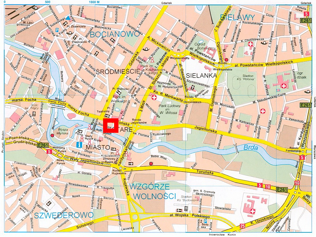 Location of the post office